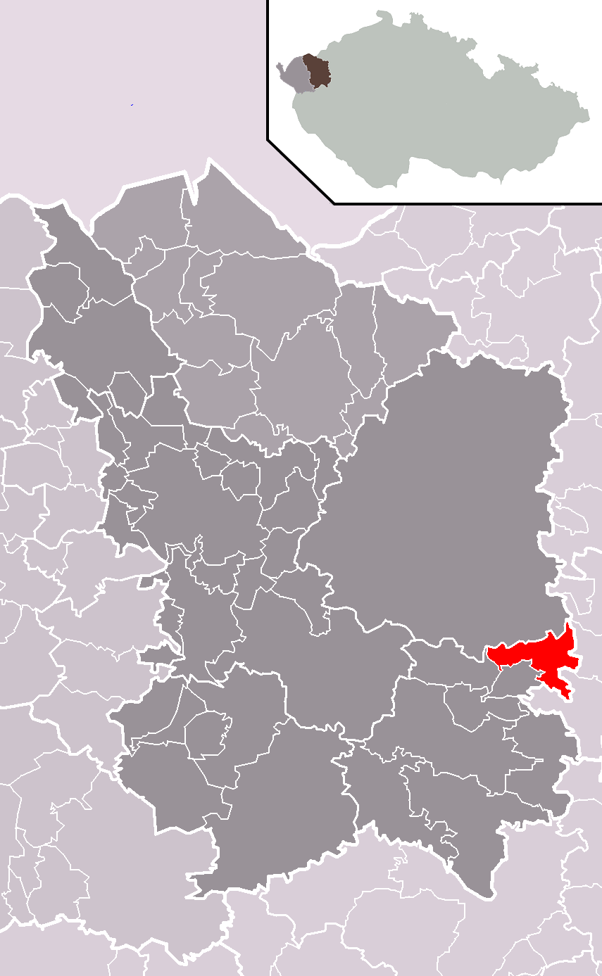 Location of Valeč municipality within Karlovy Vary District and administrative area of Karlovy Vary as a Municipality with Extended Competence.